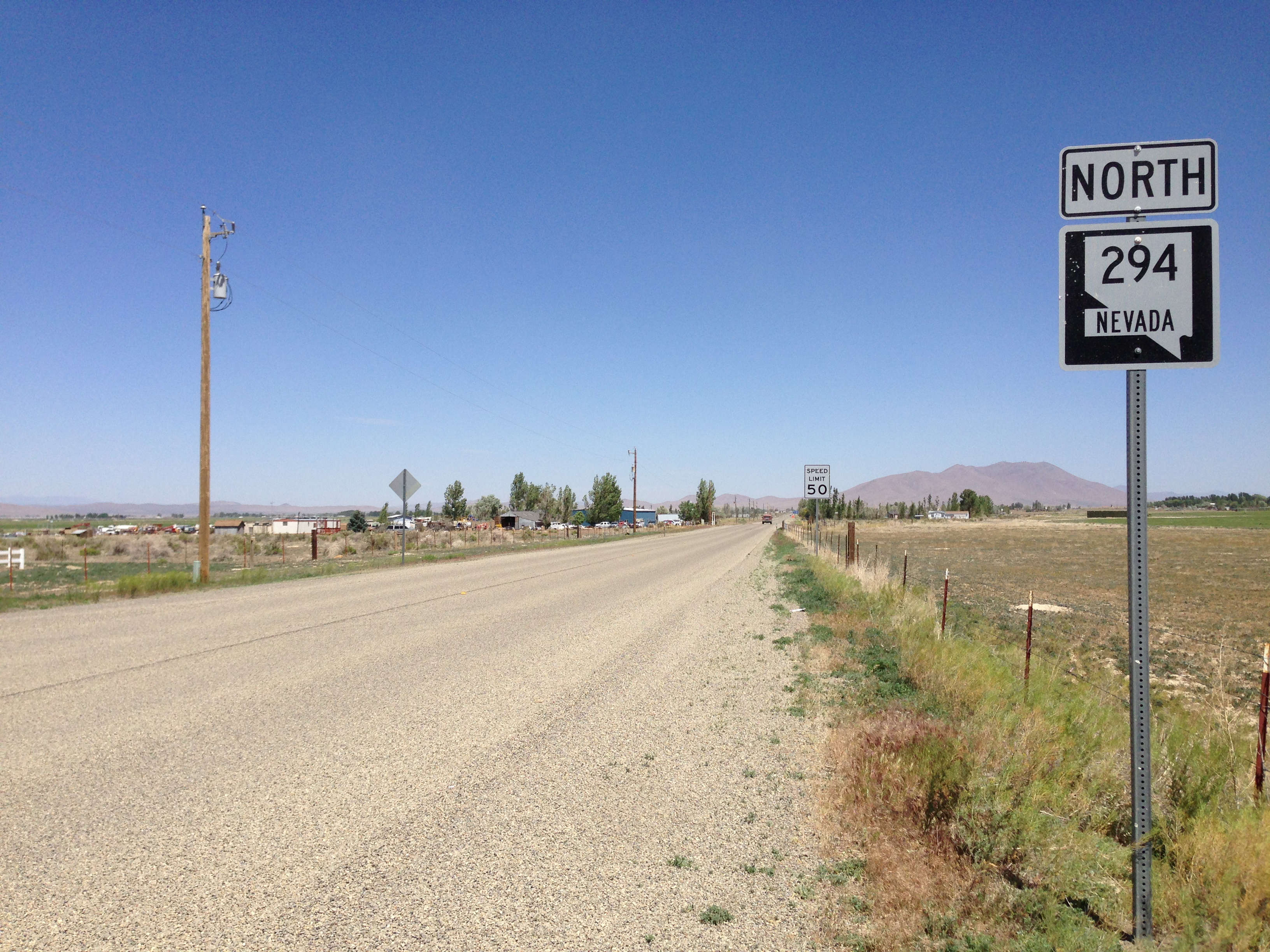 First reassurance sign along northbound Nevada State Route 294 (Grass Valley Road) in Winnemucca, Nevada